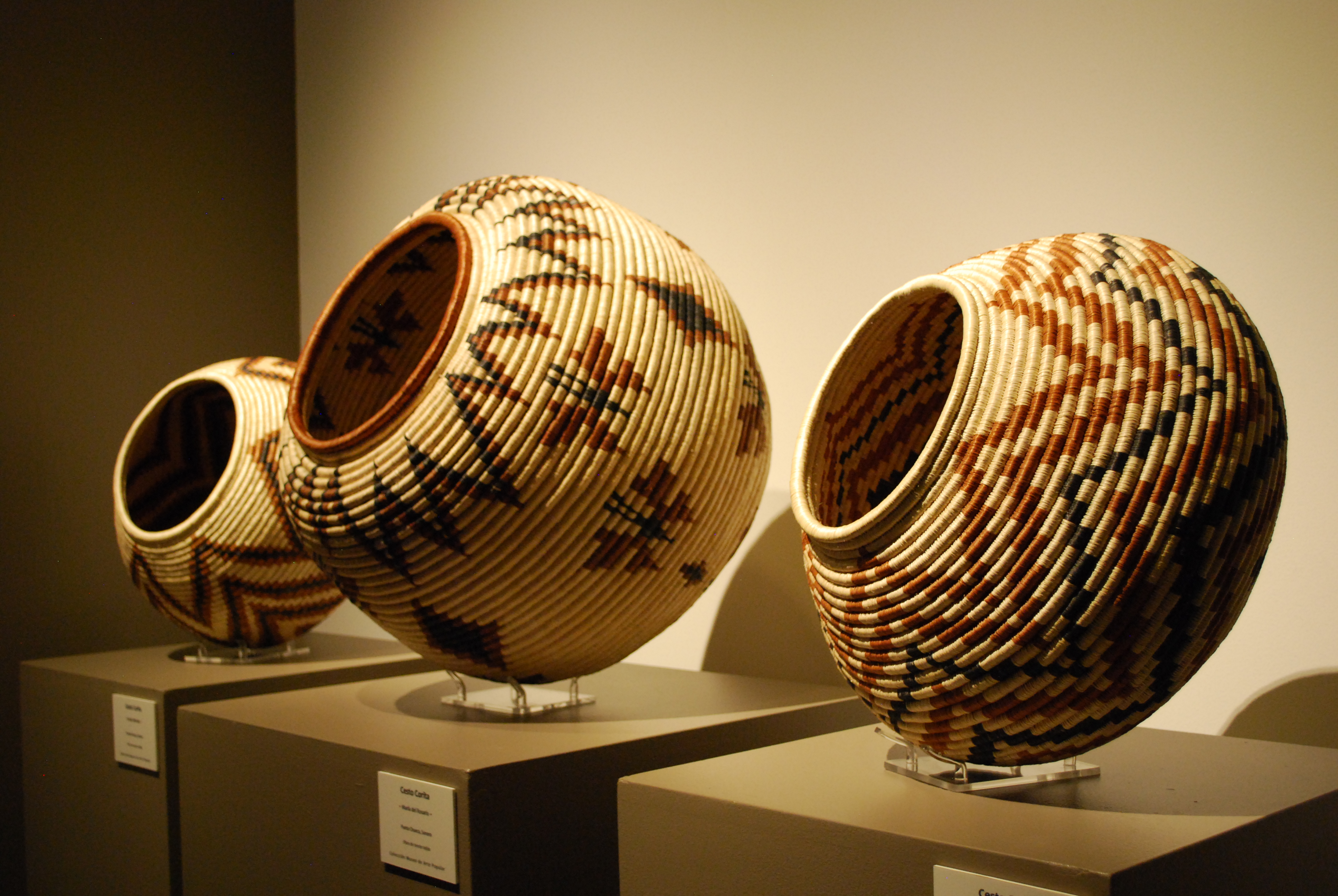 Coiled baskets from Punta Chueca, Sonora at the ARTESANO 3.0 event at the Museo de Arte Popular in Mexico City